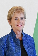 Ilham Aliyev received credentials of incoming Ambassador of Iceland